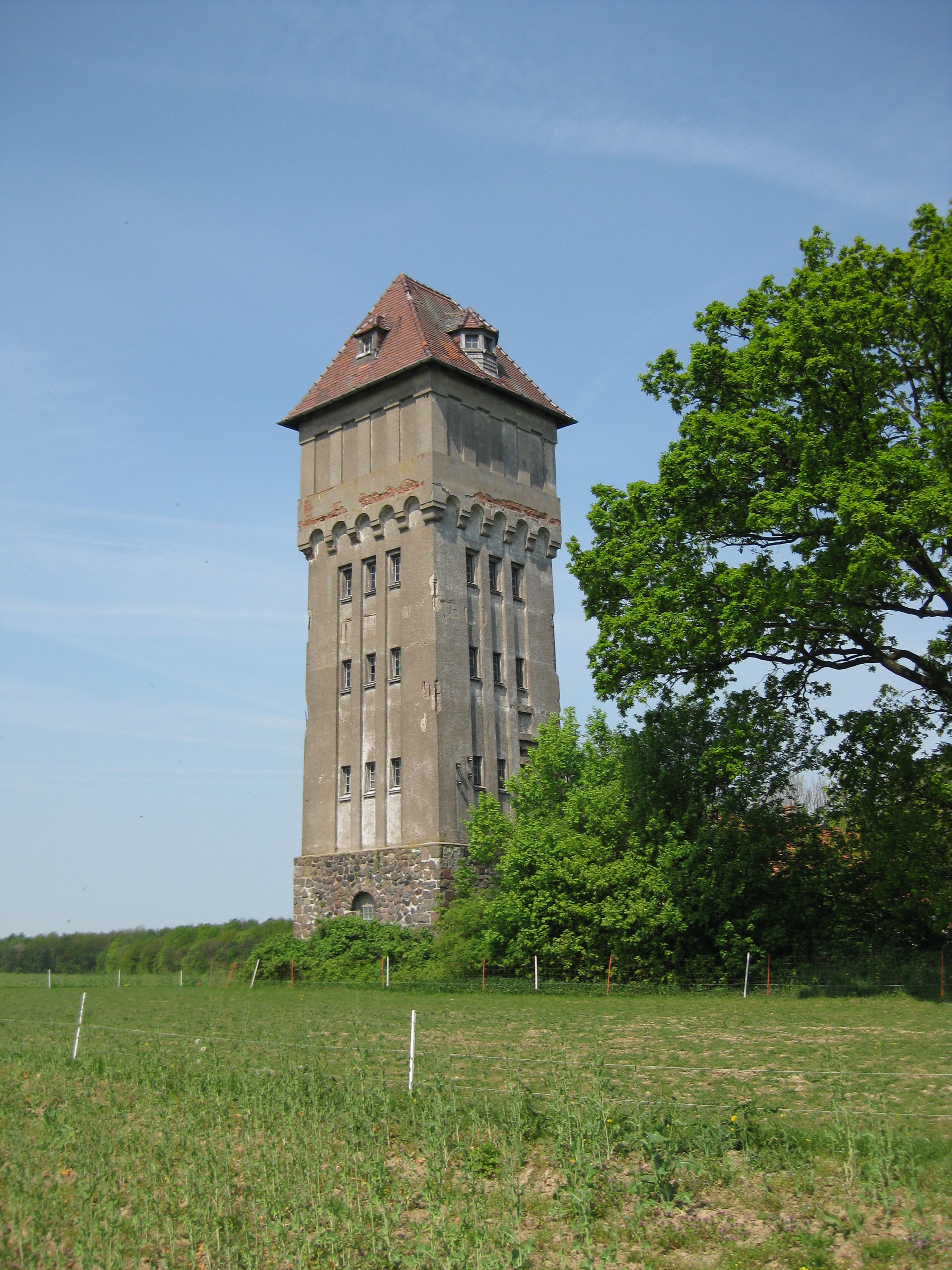 Watertower of Gut Wulmenau, a farm in Westerau, district Kreis Stormarn